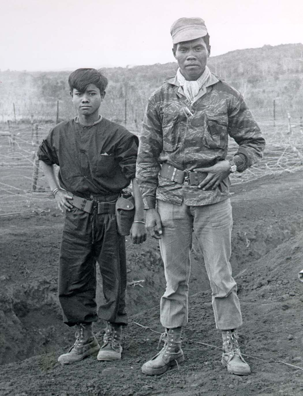 Two Degar fighters - also known as Montagnards - during the Vietnam War.